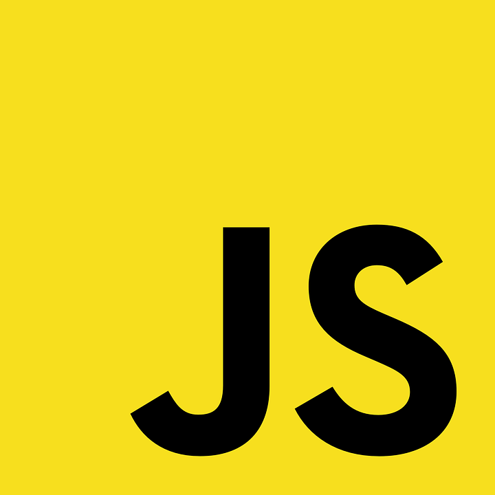 The logo for Javascript.